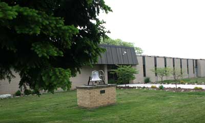 Chatham Regional Education Center